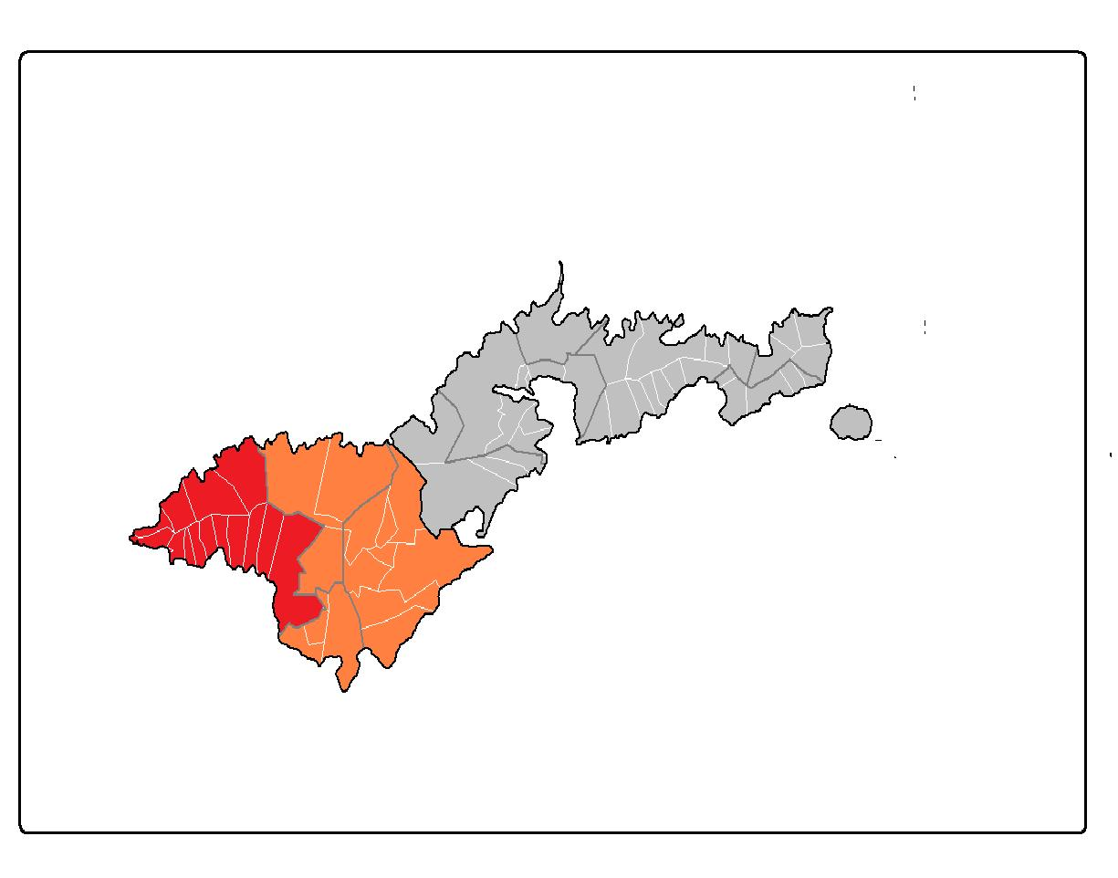 Locator maps of Lealataua_county